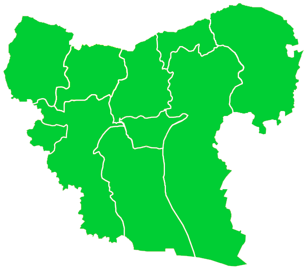 Blank map of Districts of the Governorate of Aleppo, northern Syria.